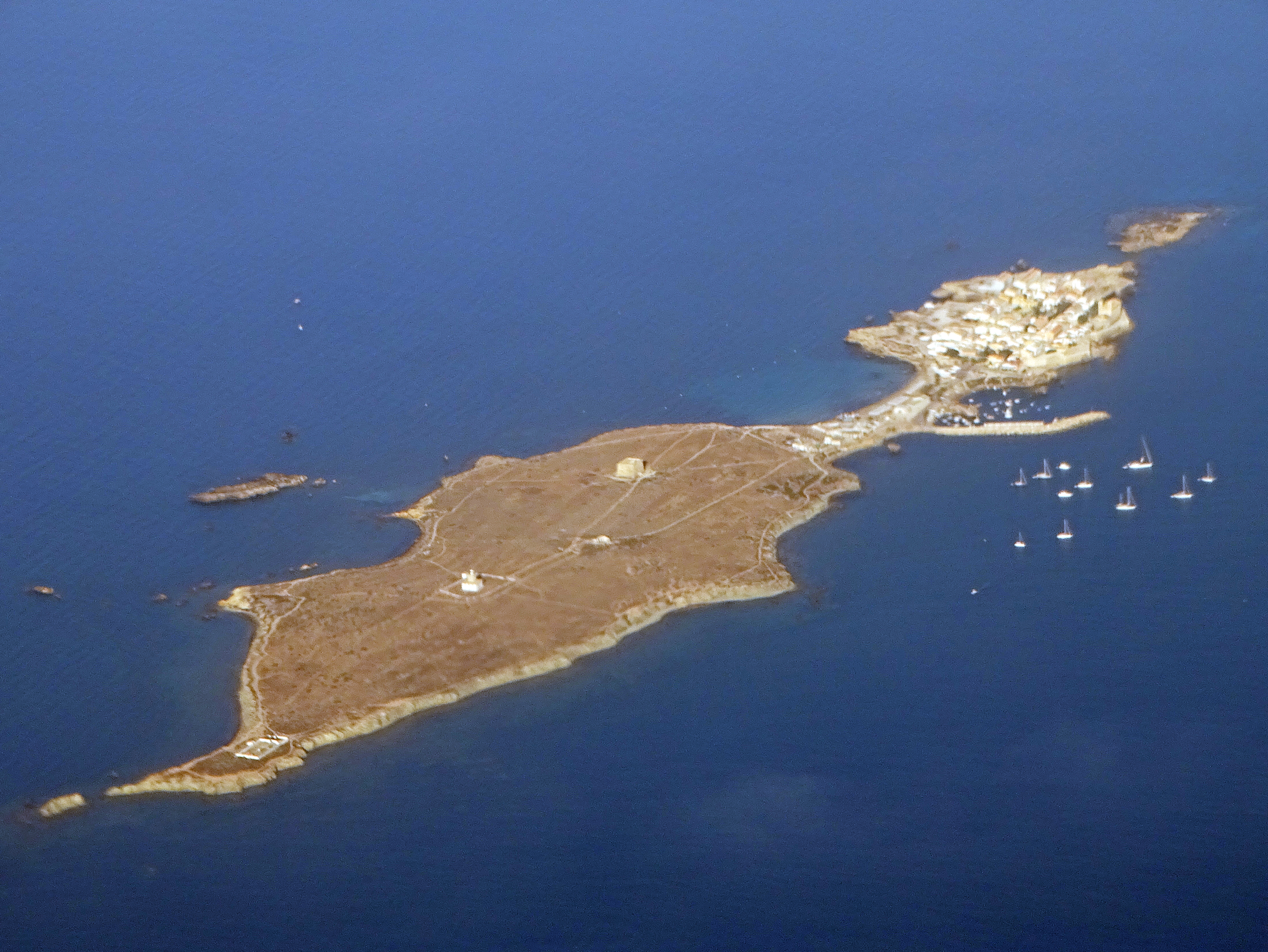 Isla de Tabarca-Alicante (España)